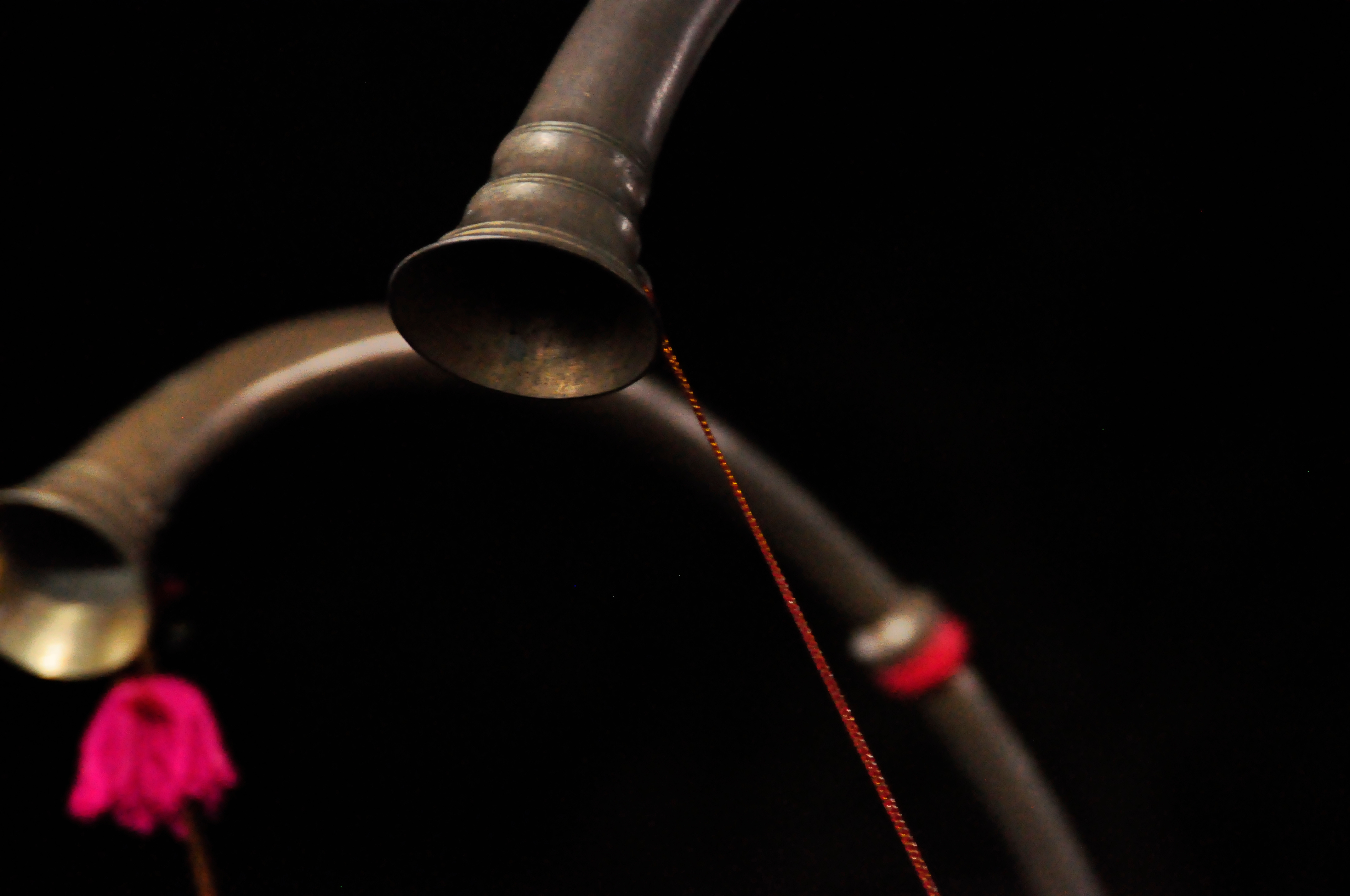 Kombu is a wind instrument (a kind of Natural Horn) usually played along with Panchavadyam, Pandi Melam, Panchari melam etc. This musical instrument is usually seen in Kerala state of south India. The instrument is like a long horn (Kombu in Malayalam language).